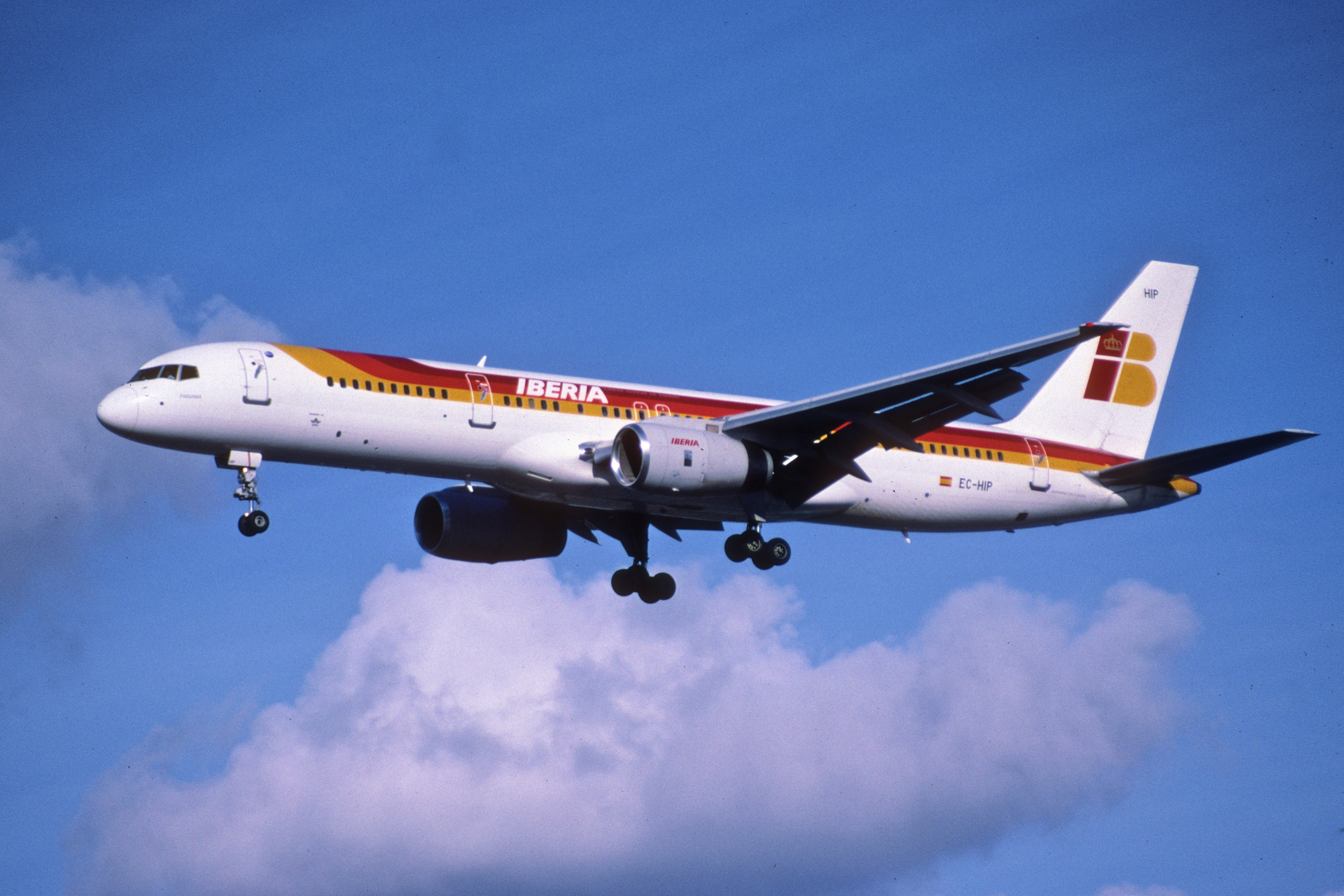 First flight: March 16, 2000... 24/04/2000 Iberia EC-HIP named Panama 01/10/2005 Air Astana N757AG, not taken up 2006 stored at Goodyear (GYR) in basic Air Astana-colours...